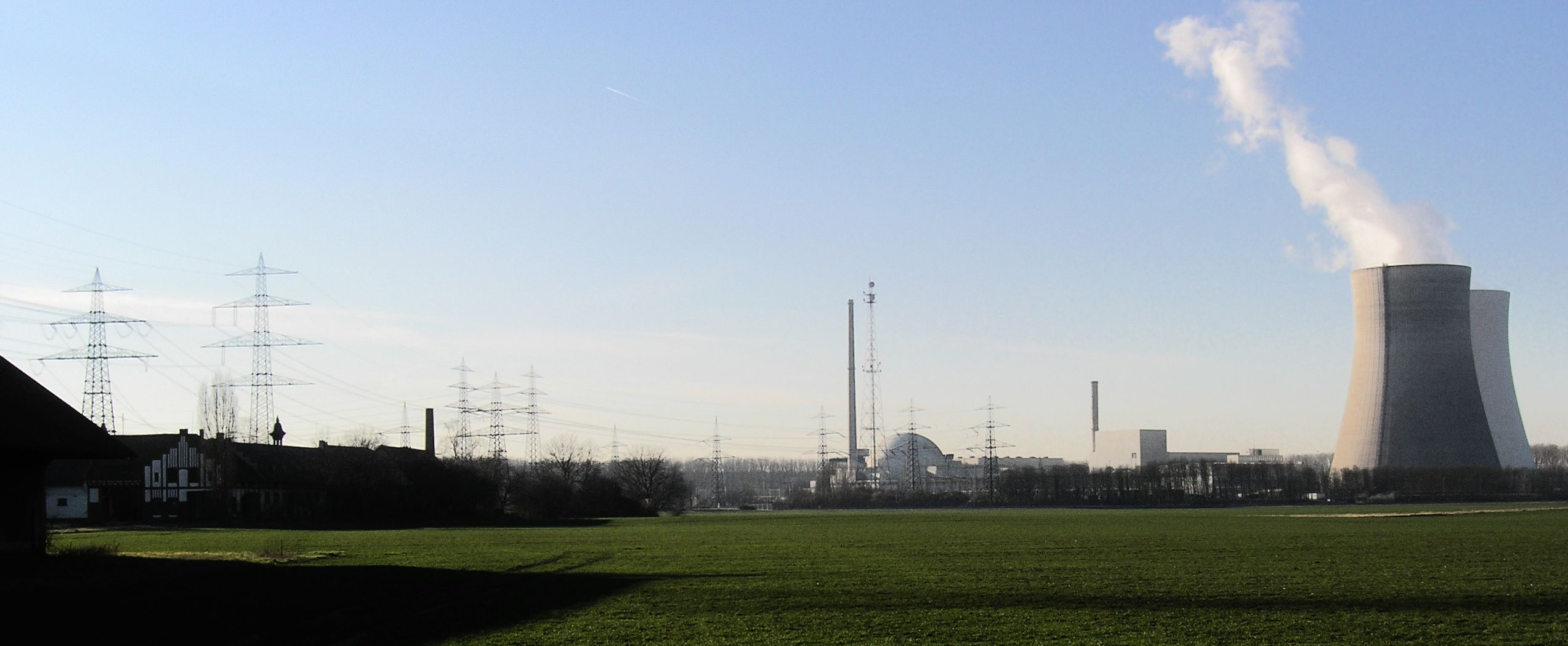 Philippsburg, Mittelhof farm and Philippsburg nuclear power plant